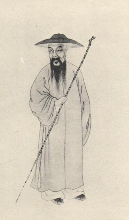 DENG Shiru, scholar of the Qing Dynasty.